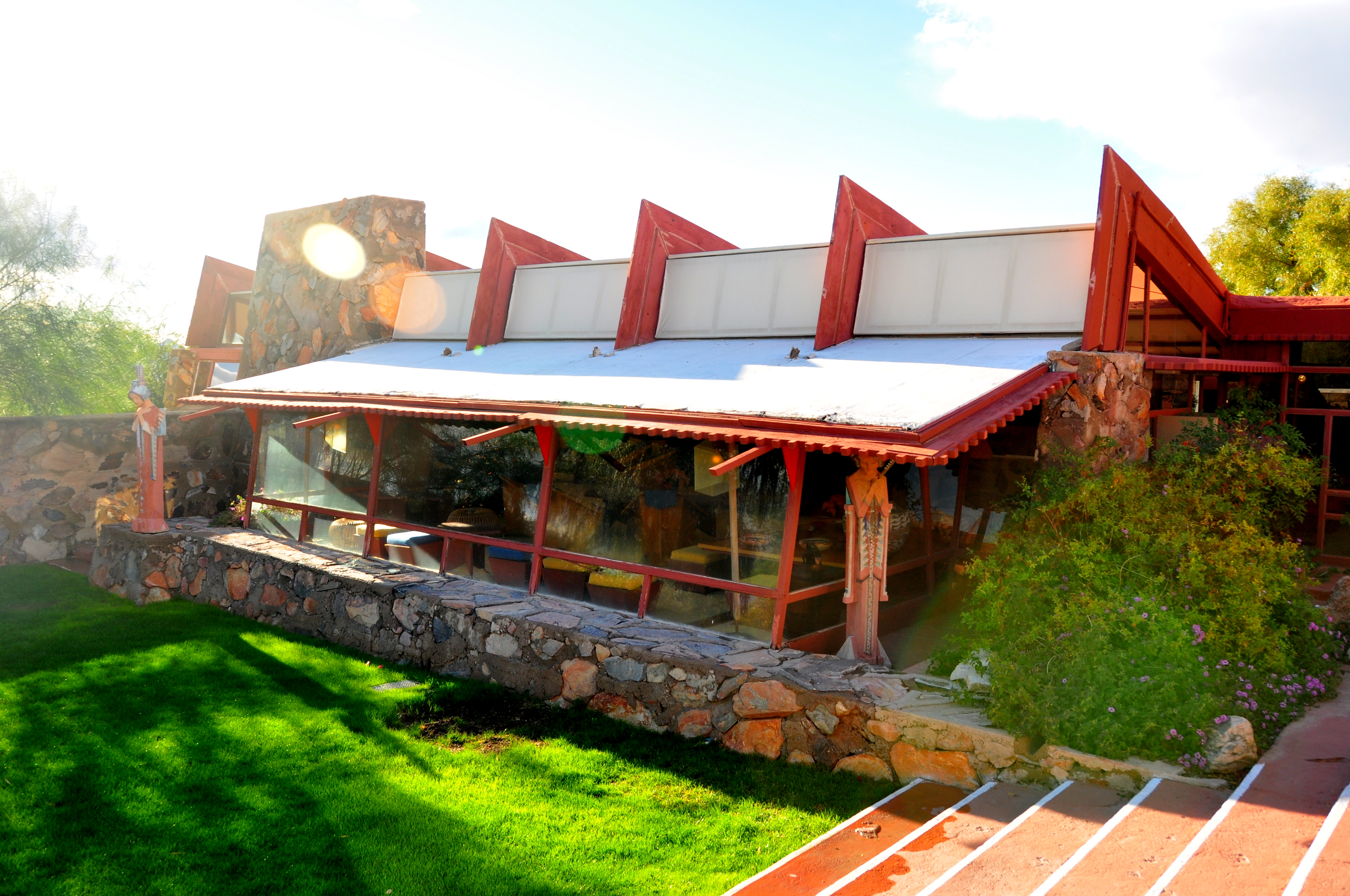 A photo of Taliesin West Garden Room taken in December 2010